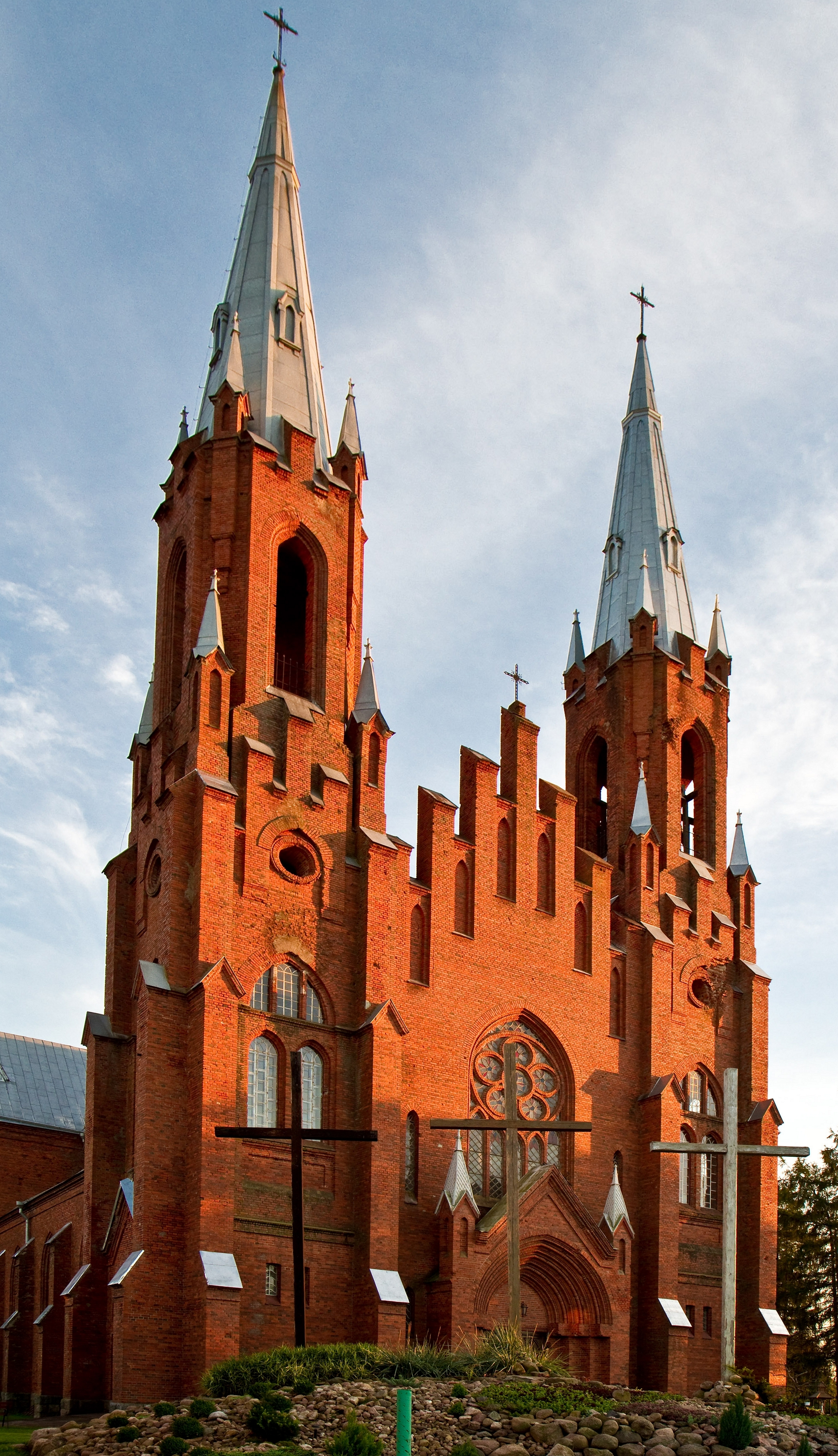 Catholic church of the Holy Trinity in Vidzy. Brasłaŭ district, Viciebsk province, Belarus.